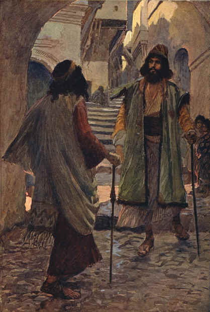 Saul meeteth with Samuel